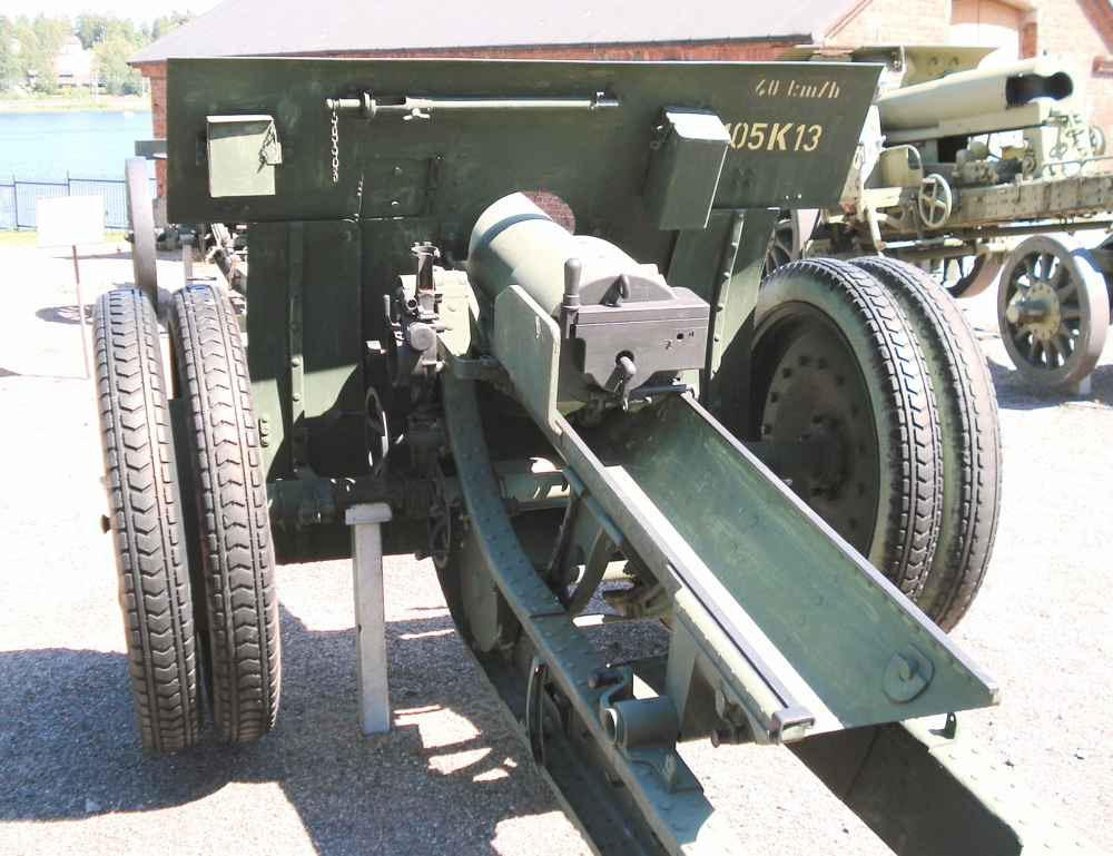 French 105 mm M1913 Schneider gun, displayed in Hämeenlinna Artillery Museum. The barrel of this particular gun was manufactured in 1918 and the gun carriage in 1916. The rubber tires were added in the 1940s or after, when the gun was in Finnish service.